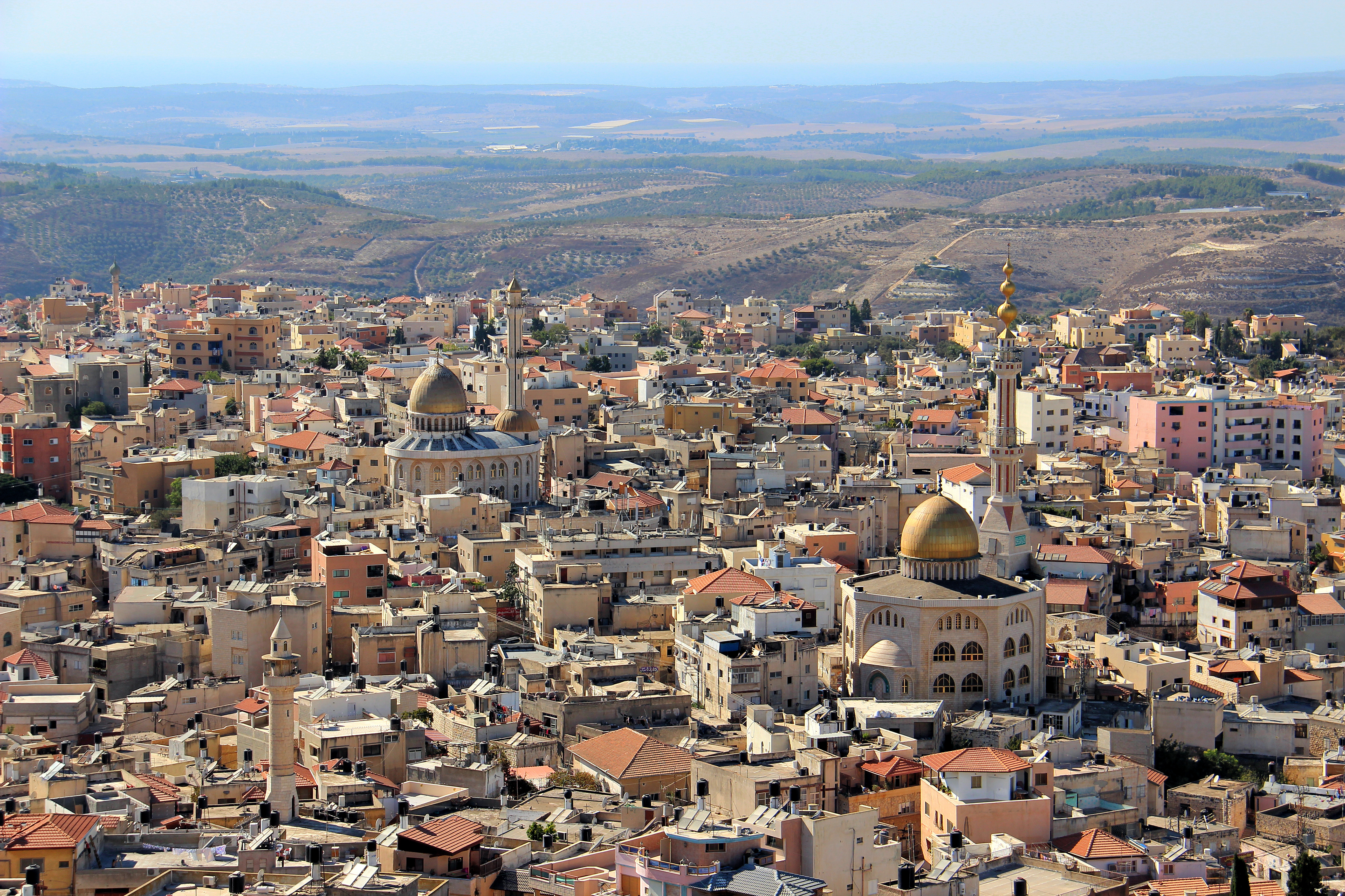 Umm Al-Fahm